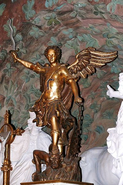 Statue of Saint Michael in Bonn